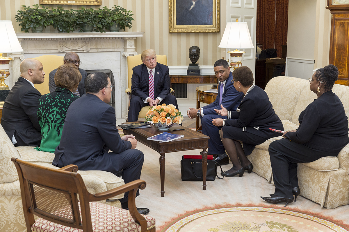 President Donald Trump meets with members of the Congressional Black Caucus in the Oval Office, Wednesday, March 22, 2017. (Official White House Photo by Benjamin Applebaum)